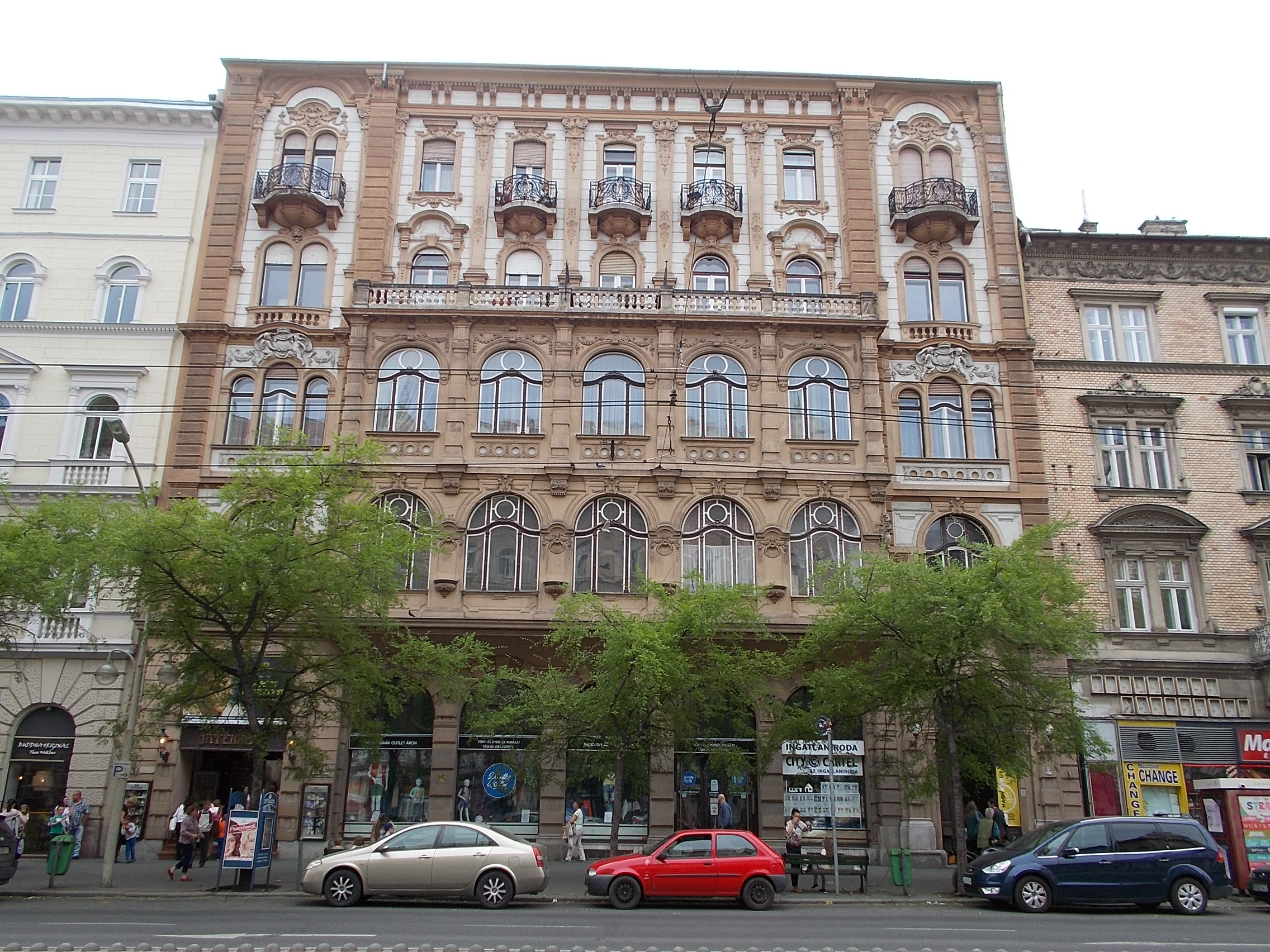 Dwelling building with a theater on ground floor. - Teréz Boulevard, Budapest District VI., Hungary.